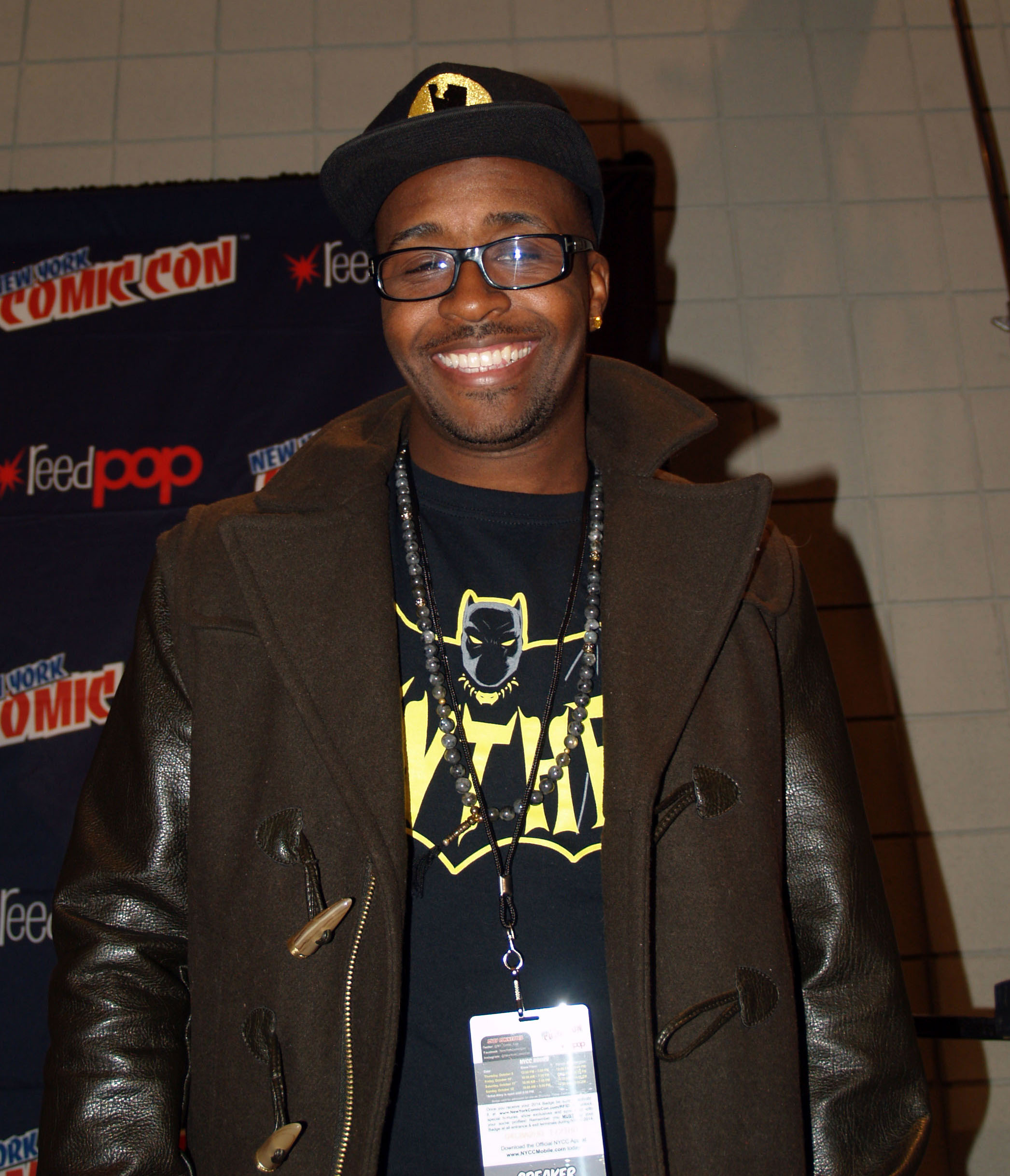 Rap music artist and producer Kwame Holland during a panel discussion on hip hop and comics on Sunday, October 12, 2014, at the Jacob K. Javits Convention Center in Manhattan, Day 4 of the 2014 New York Comic Con. This photo was created by Luigi Novi. It is not in the public domain, and use of this file outside of the licensing terms is a copyright violation.